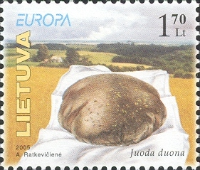 1,70 L. multicoloured. Black bread